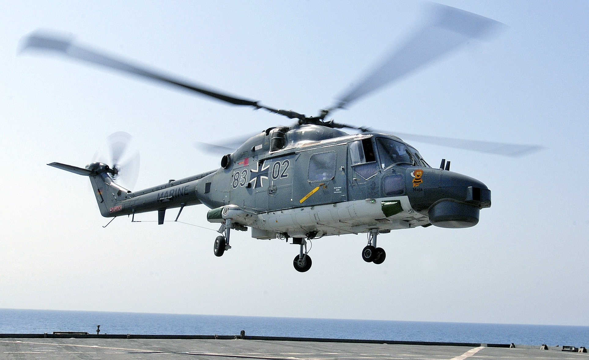 110922-N-GH121-118 RED SEA (Sept. 22, 2011) A German Marine Lynx helicopter departs after refueling aboard amphibious dock landing ship USS Whidbey Island (LSD 41) in the Red Sea. Whidbey Island is deployed as part of the Bataan Amphibious Ready Group, supporting maritime security operations and theater security cooperation efforts in the U.S. 5th Fleet area of responsibility. (U.S. Navy photograph by Mass Communication Specialist 1st Class (SW) Rachael L. Leslie/Released)